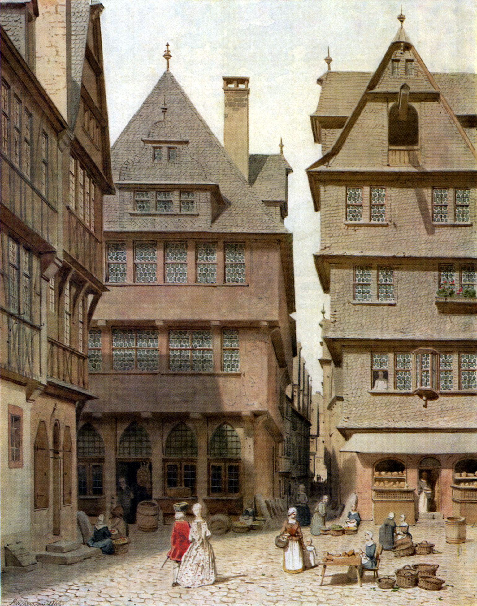 Frankfurt on the Main: Huehnermarkt (Chicken Market) with the house Zum Esslinger (To the Esslinger, left) and the house Flechte (Plait, right), in the center the Neugasse (New Lane) leading north, historicising depiction of the situation before 1766 when the house Zum Esslinger was altered in late baroque style